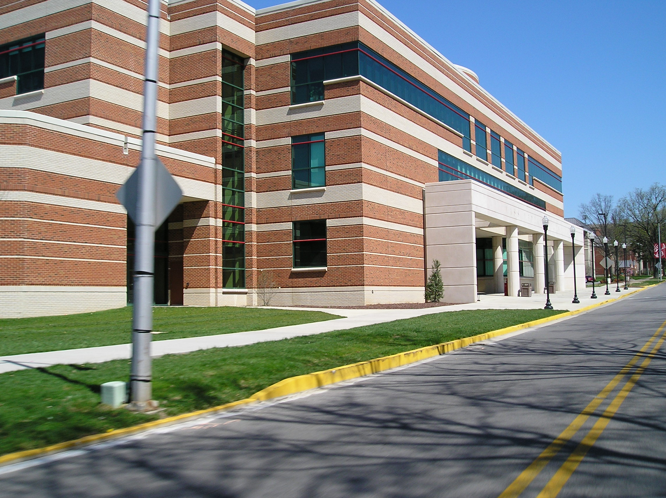 Mass Media & Technology Hall, WKU School of Journalism and Broadcasting